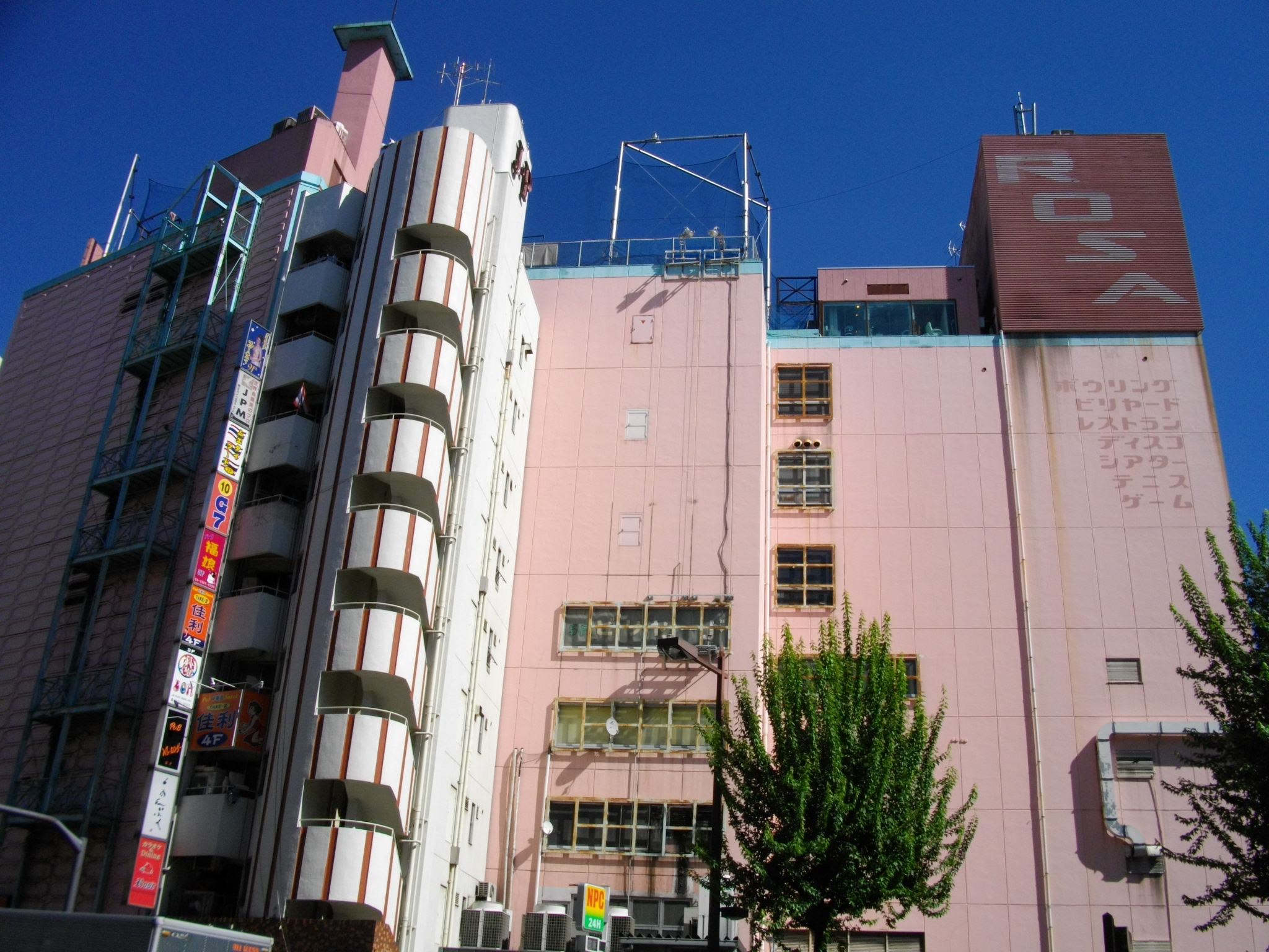 ROSA Hall